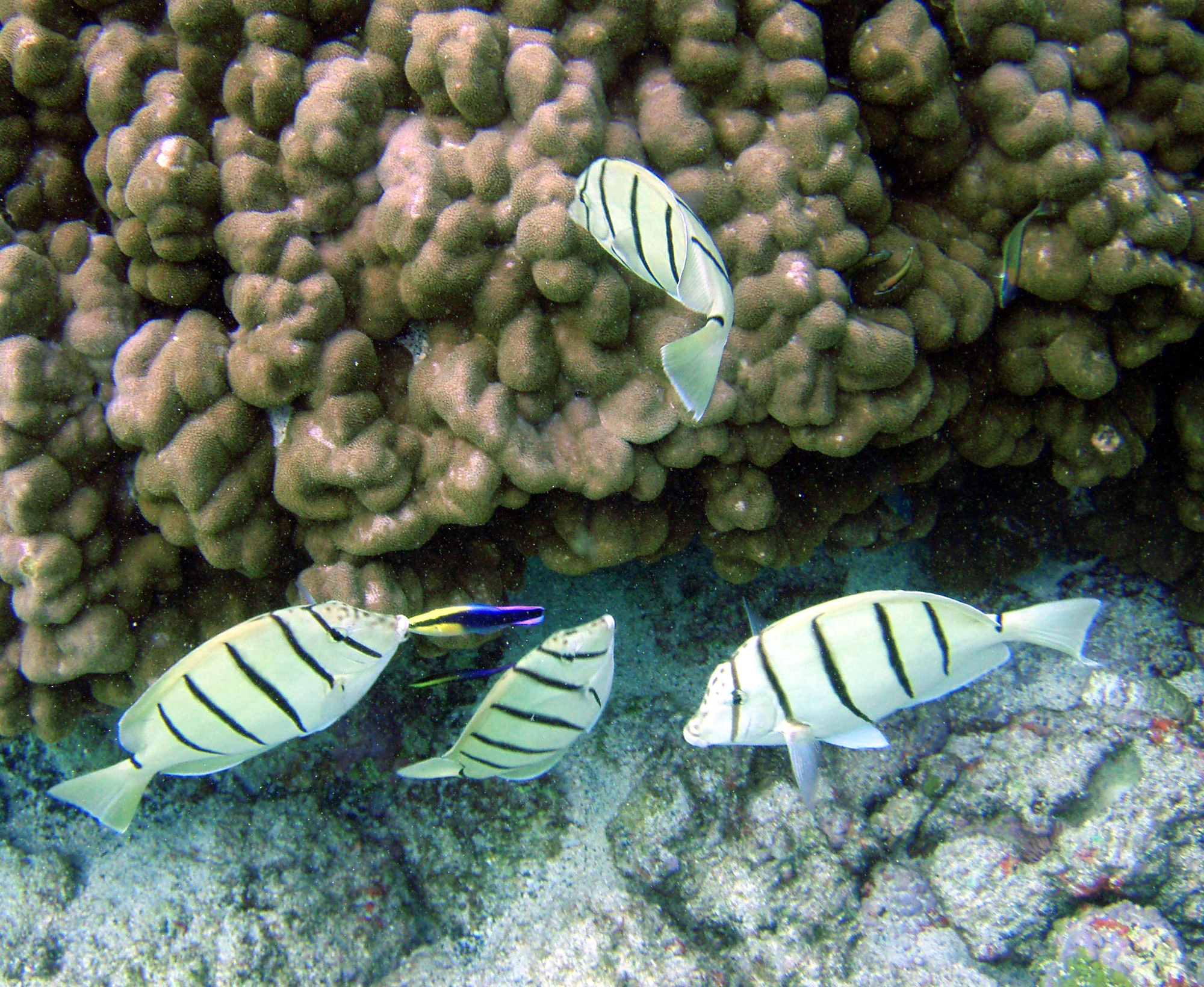 Labroides phthirophagus cleans mouth of convict tang, Acanthurus triostegus at cleaning station in Kona,Hawaii